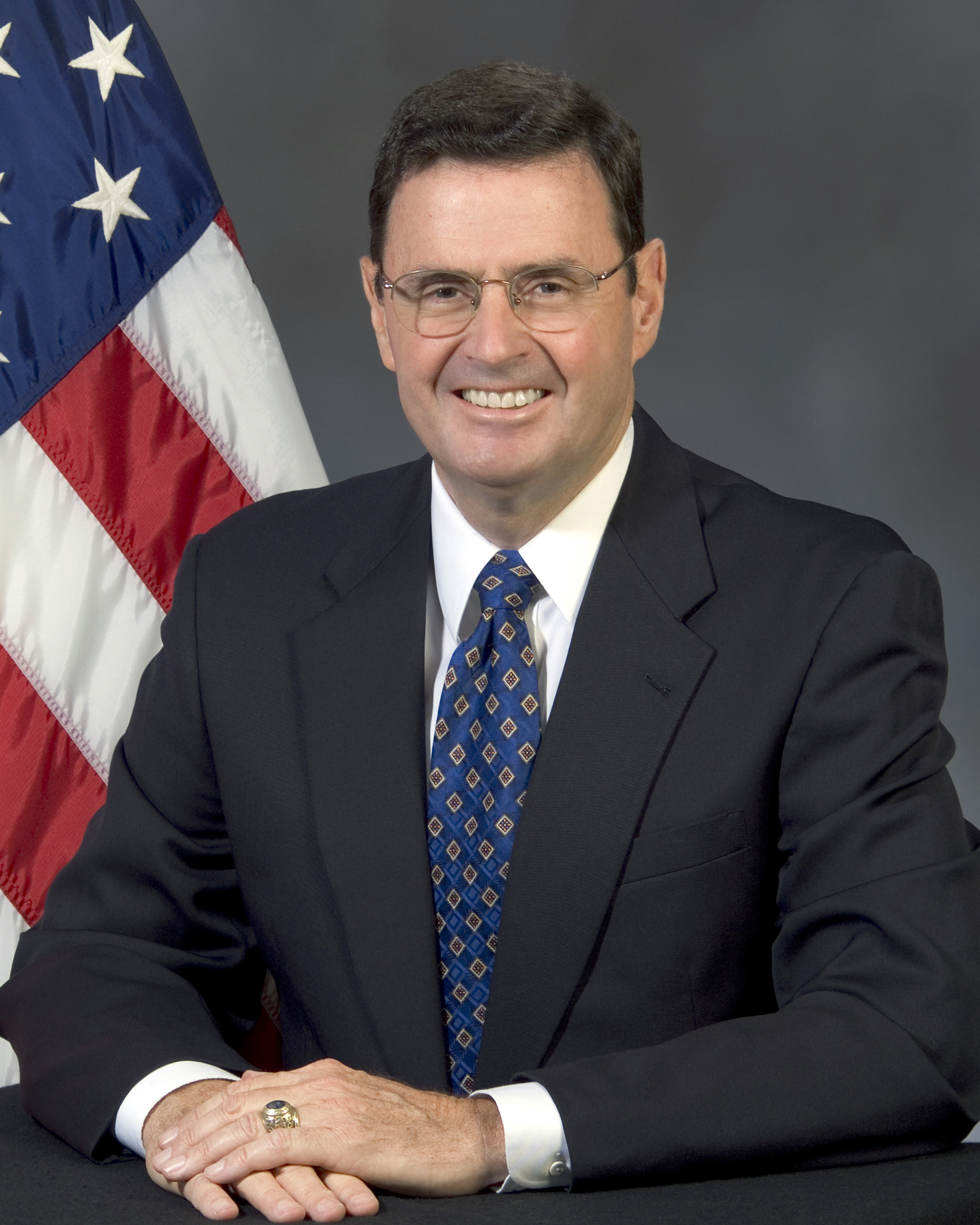 Paul E. Tobin, Jr., Senior Executive Services Director of Naval History